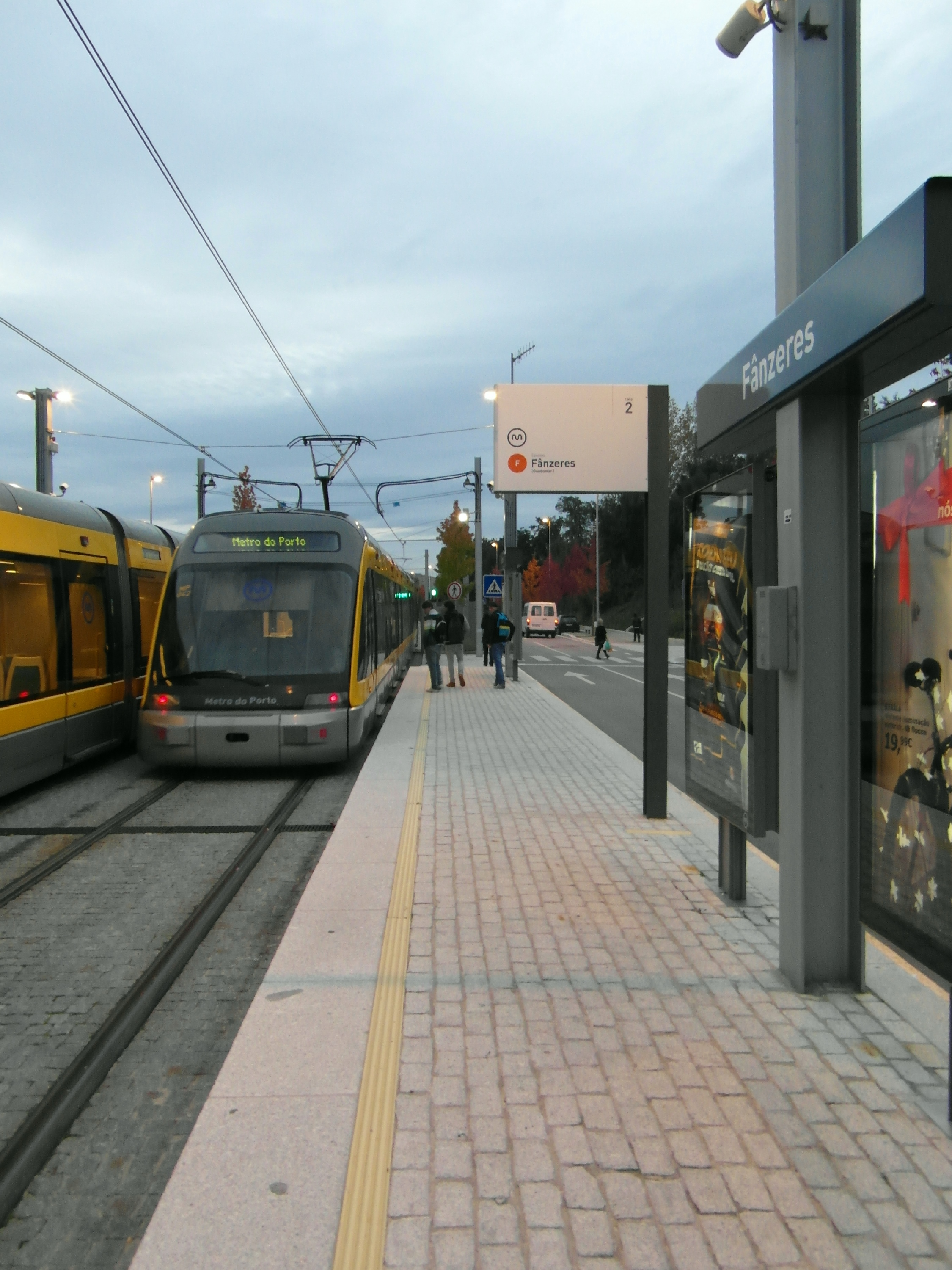 Stadtbahn Porto - Oporto light rail